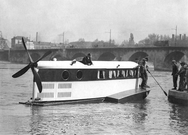 1924 French airboat "Le Ricocheur" made by Farman Aircraft.